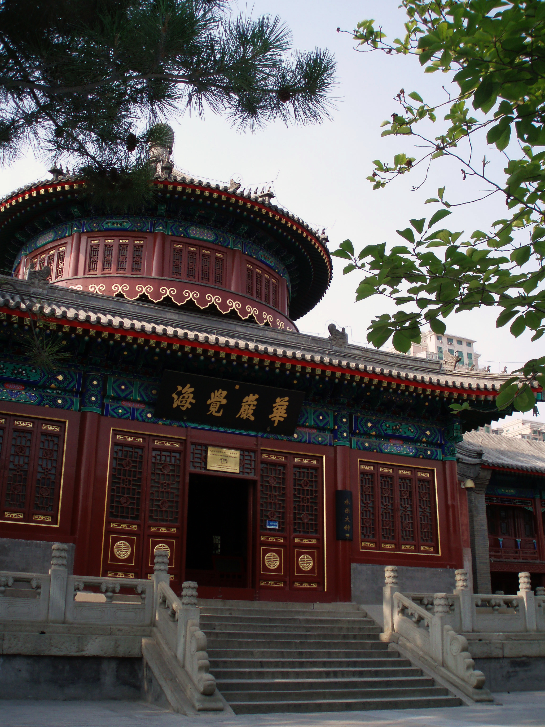 Big Bell Tower, Big Bell Temple, Beijing. The Yongle Bell rests inside the Tower. 中文（香港）: 北京大鐘寺的大鐘樓。永樂大鐘存放於此。